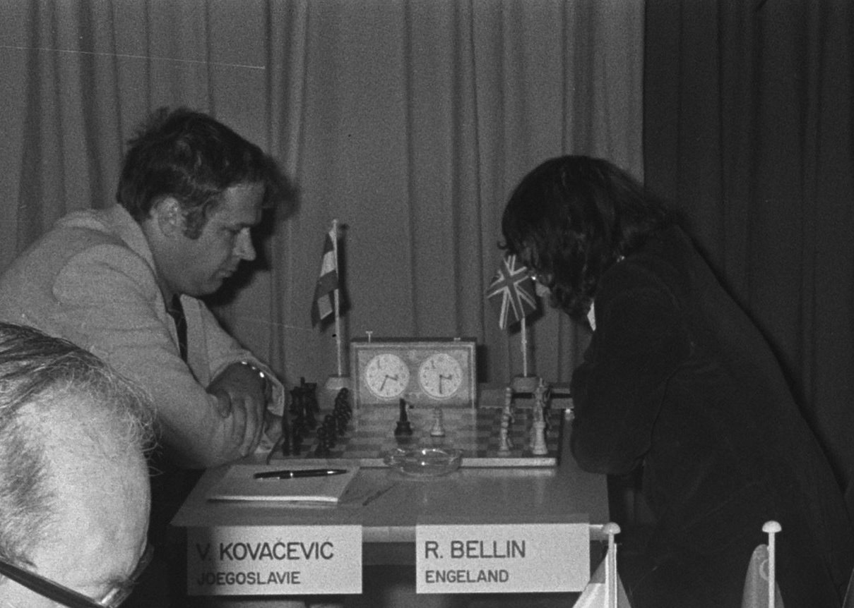 Vlatko Kovacevic vs Robert Bellin (Amsterdam, IBM Chess Tournament 1973)